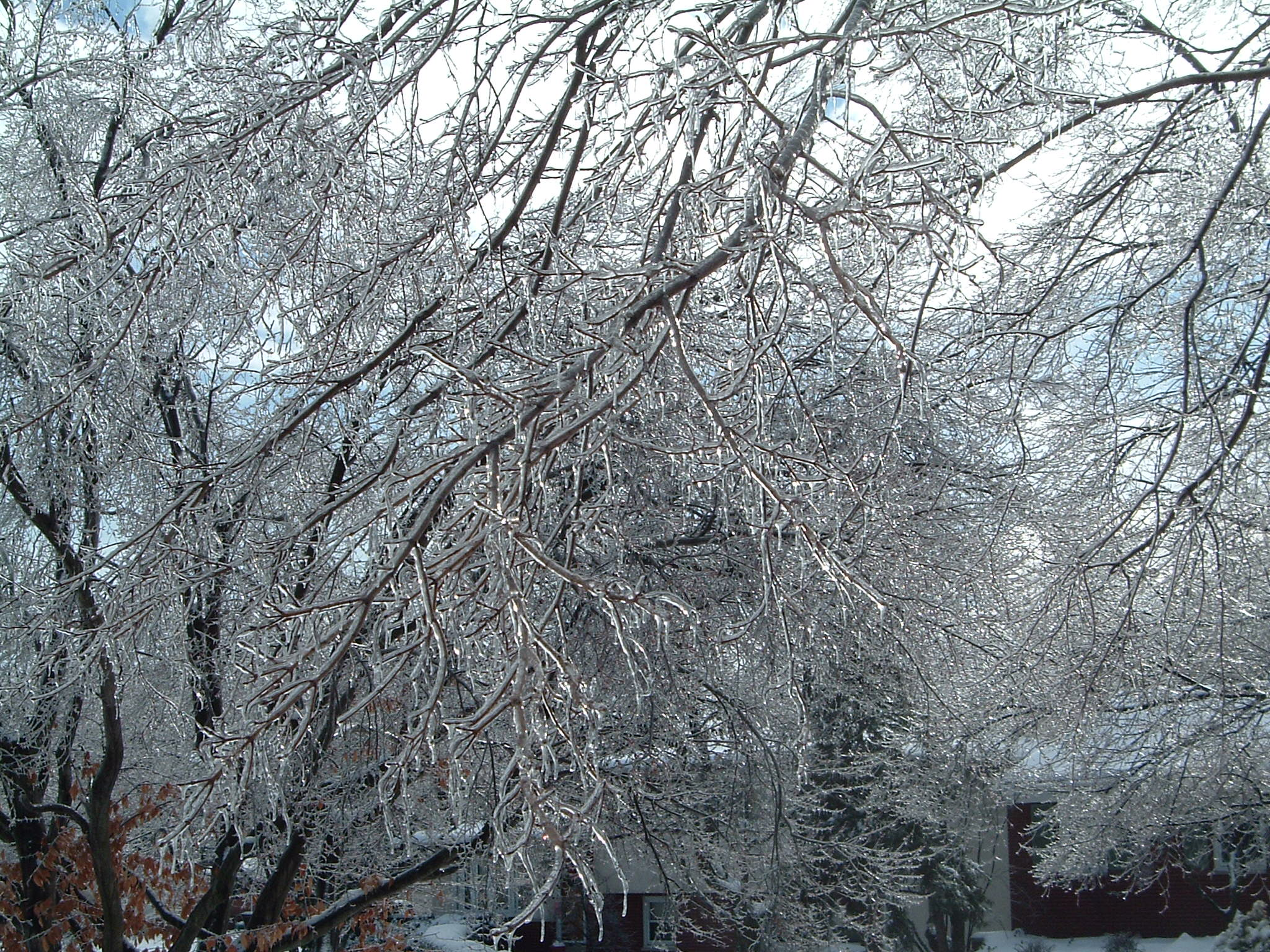 Ice buildup from the December 2004 winter storm Caption from Wikipedia Pre-Christmas_2004_snowstorm: "Ice buildup in Columbus".